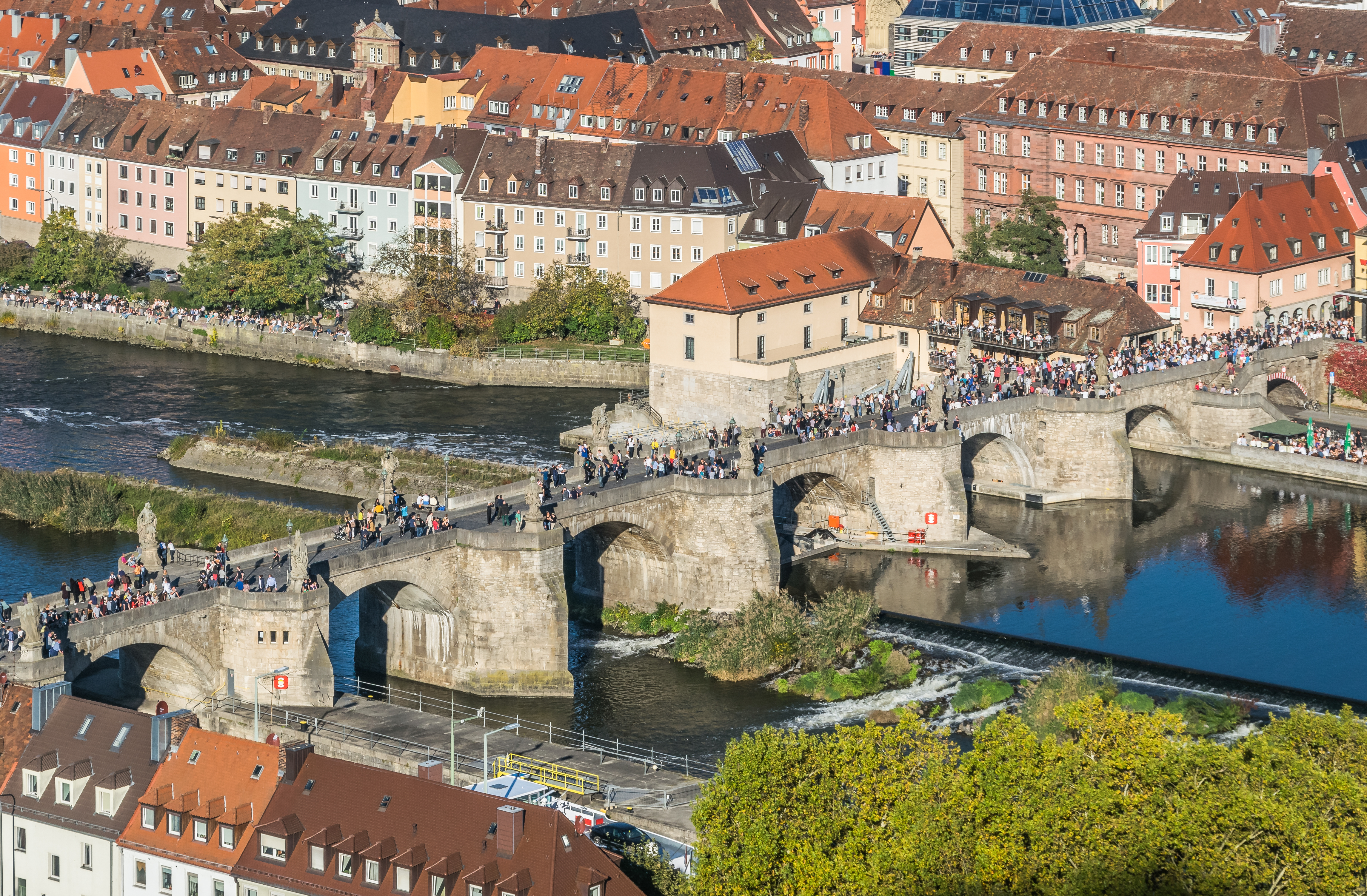 View of the old bridge over Main in Würzburg (Bavaria, Germany)